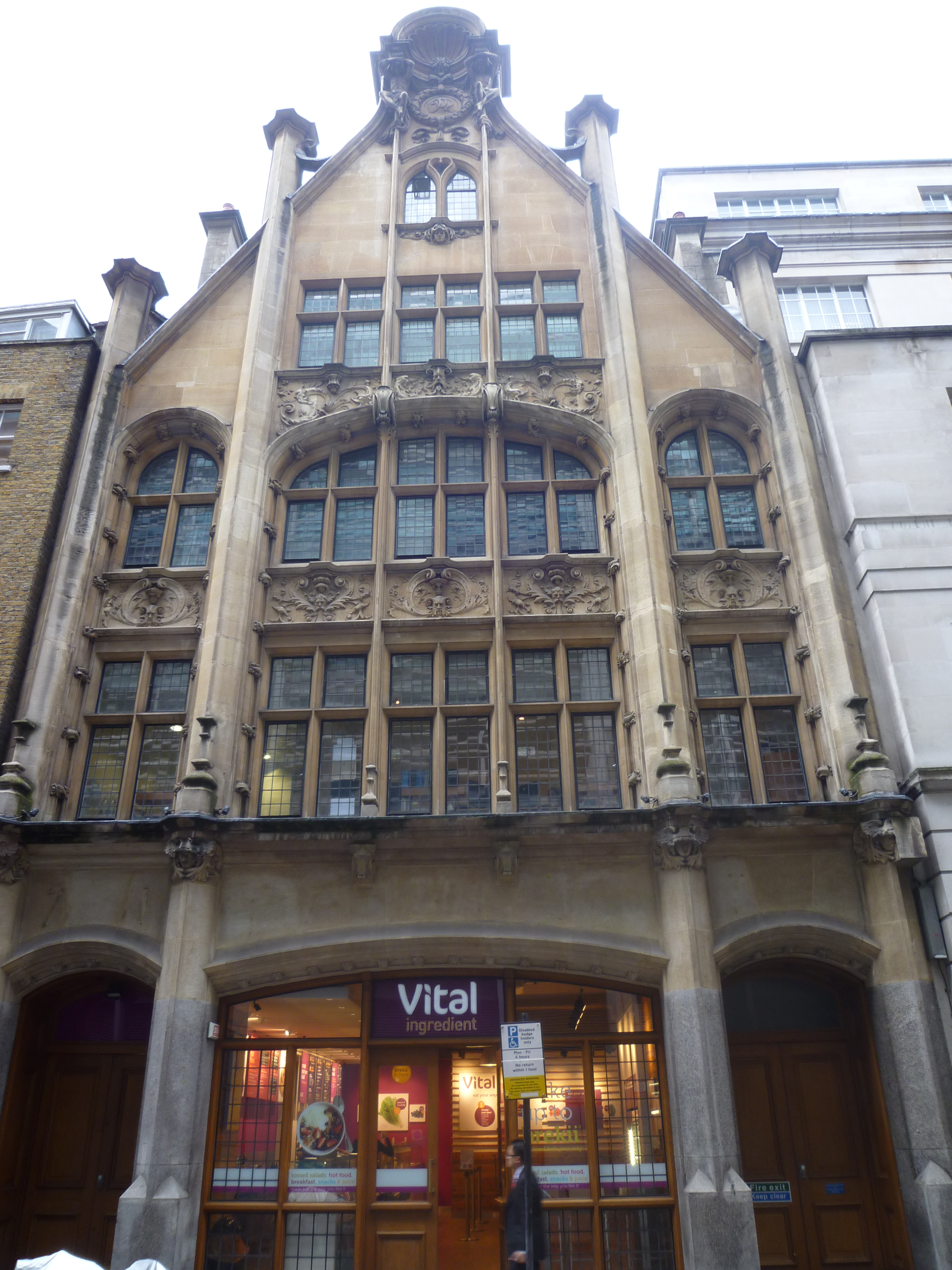 Art Nouveau architecture on the outside of 80 Fetter Lane, London. Built 1902.